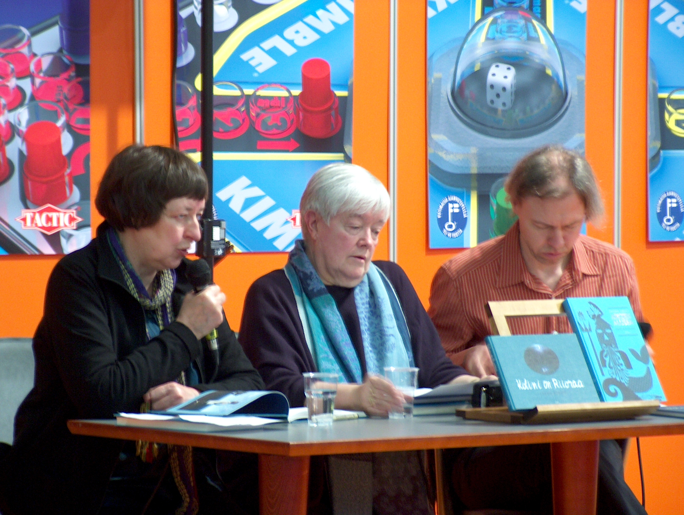 Finnish writers Leena Krohn and Arto Kivimäki interviewed by Kaisa Neimala (in the middle) at the Helsinki Book Fair 2008.